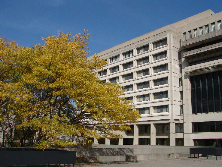 Ross Humanities & Social Sciences Building